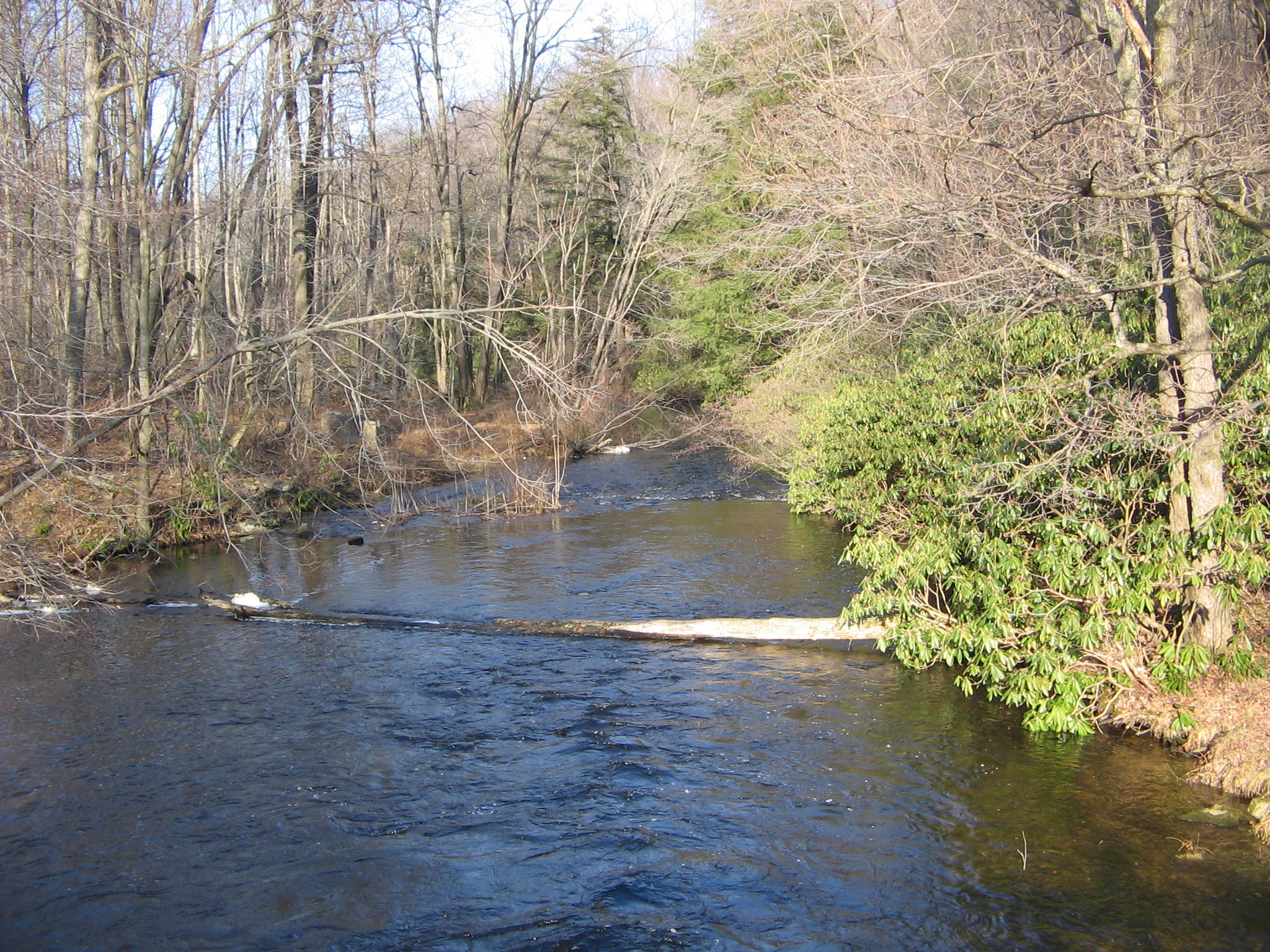 Black Moshannon Creek just downstream from the Dam on Black Moshannon Lake at Black Moshannon State Park, near Phillipsburg, Rush Township, Centre County, Pennsylvania, USA.